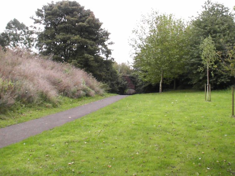 Picture taken by Adam Sapic of Mens Bona SP, Birmingham. Released to public domain.